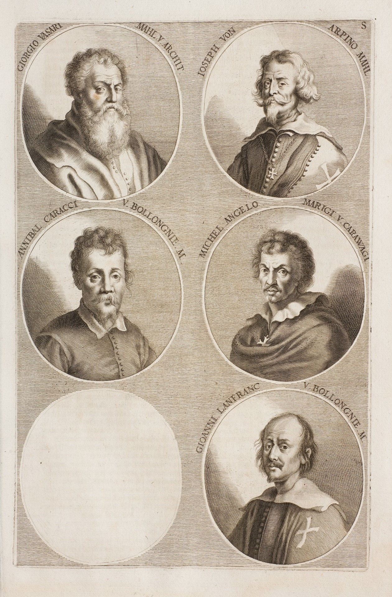 Engraving from the German Academy of the Noble Arts of Architecture, Sculpture and Painting, or Teutsche Academie, a comprehensive dictionary of art by Joachim von Sandrart, published in 1675 and later illustrated with engravings in 1683 Vasari, Joseph von Arpino, Annabel Carraci, Caravaggio, Lanfranco